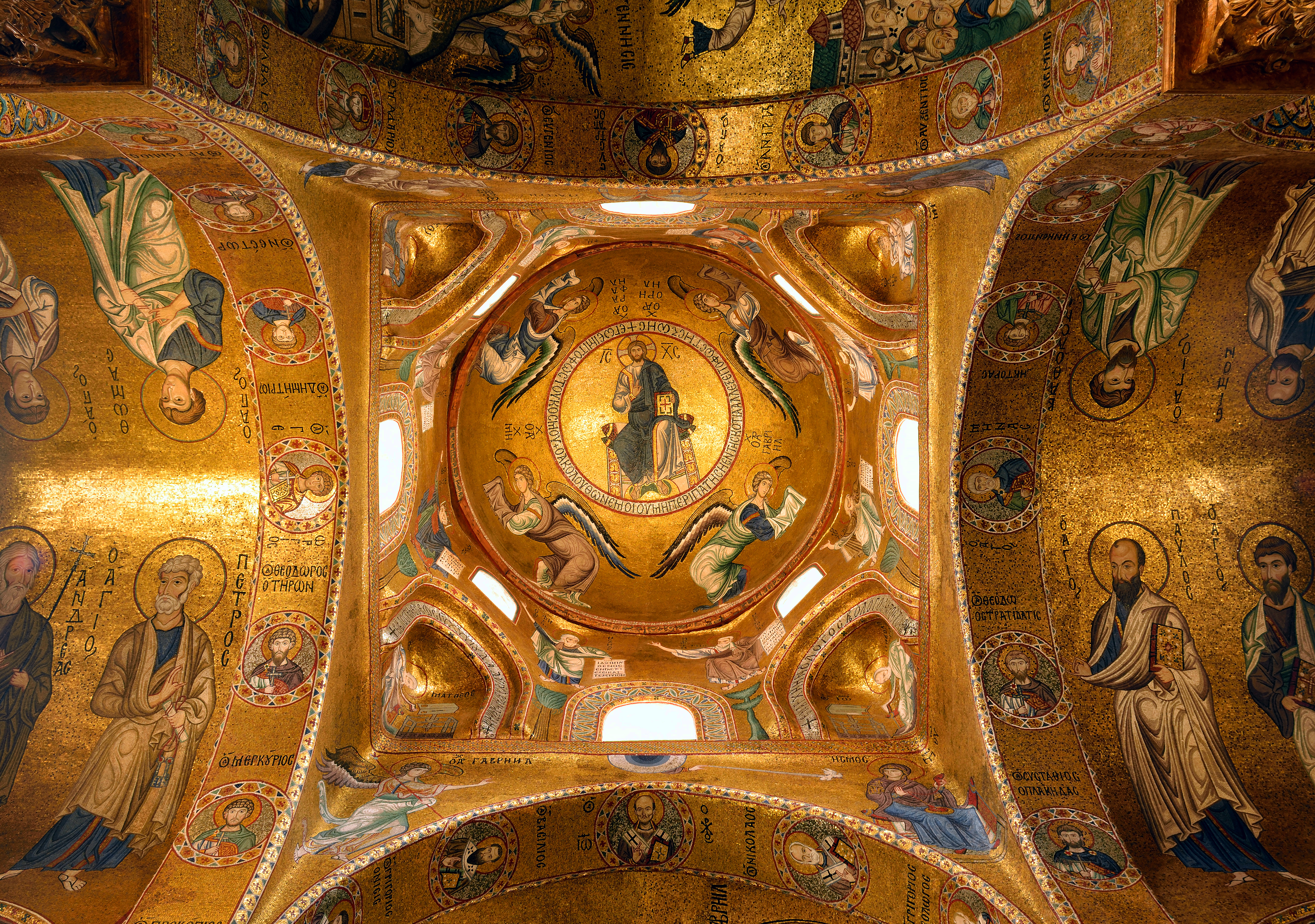 La Martorana (Palermo) - Dome